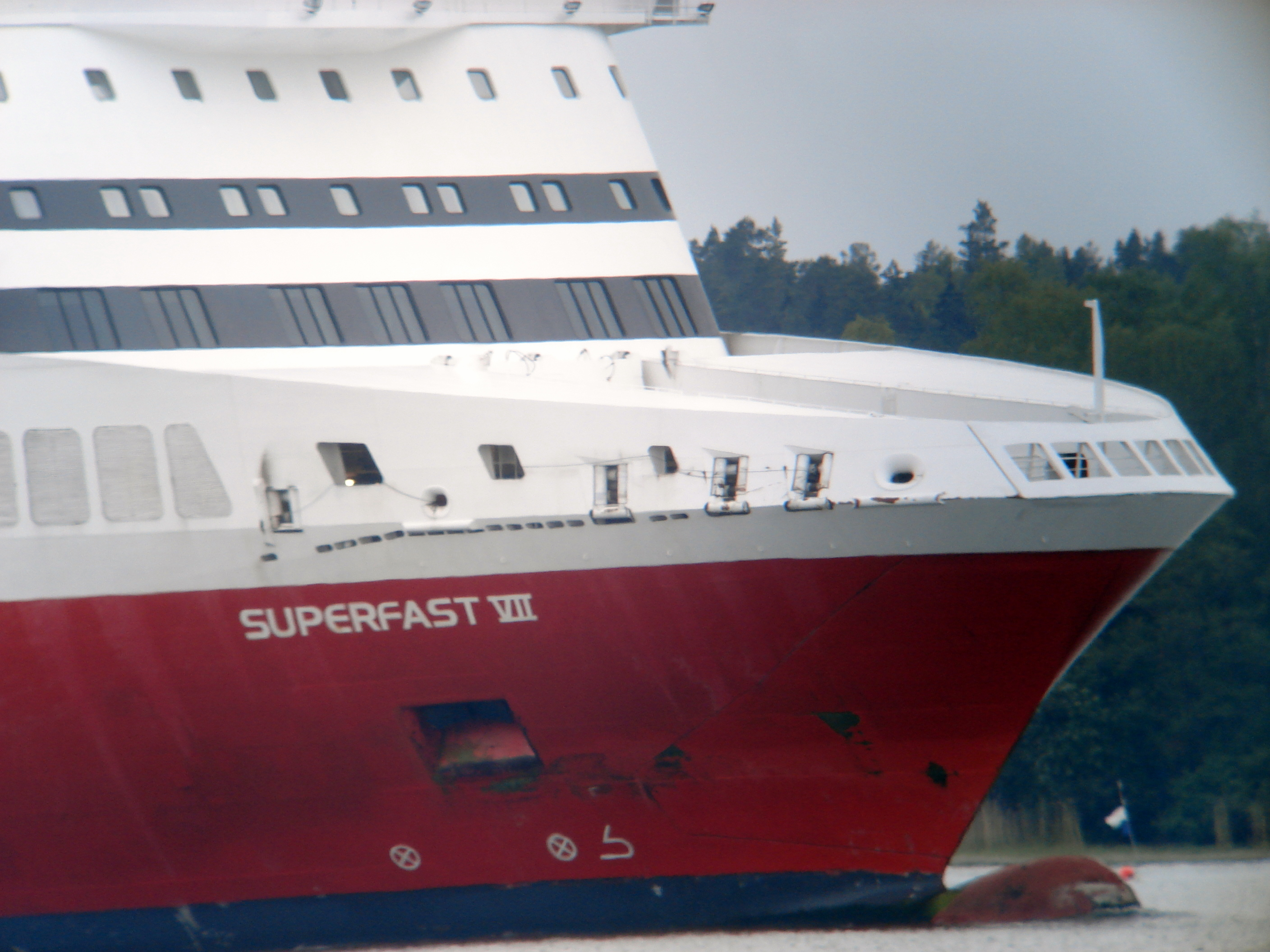 MS Superfast VII bow, approaching Turku Repair Yard at Naantali, Finland. Digiscoped with Swarovski ATS 80 HD + 20-60x zoom.